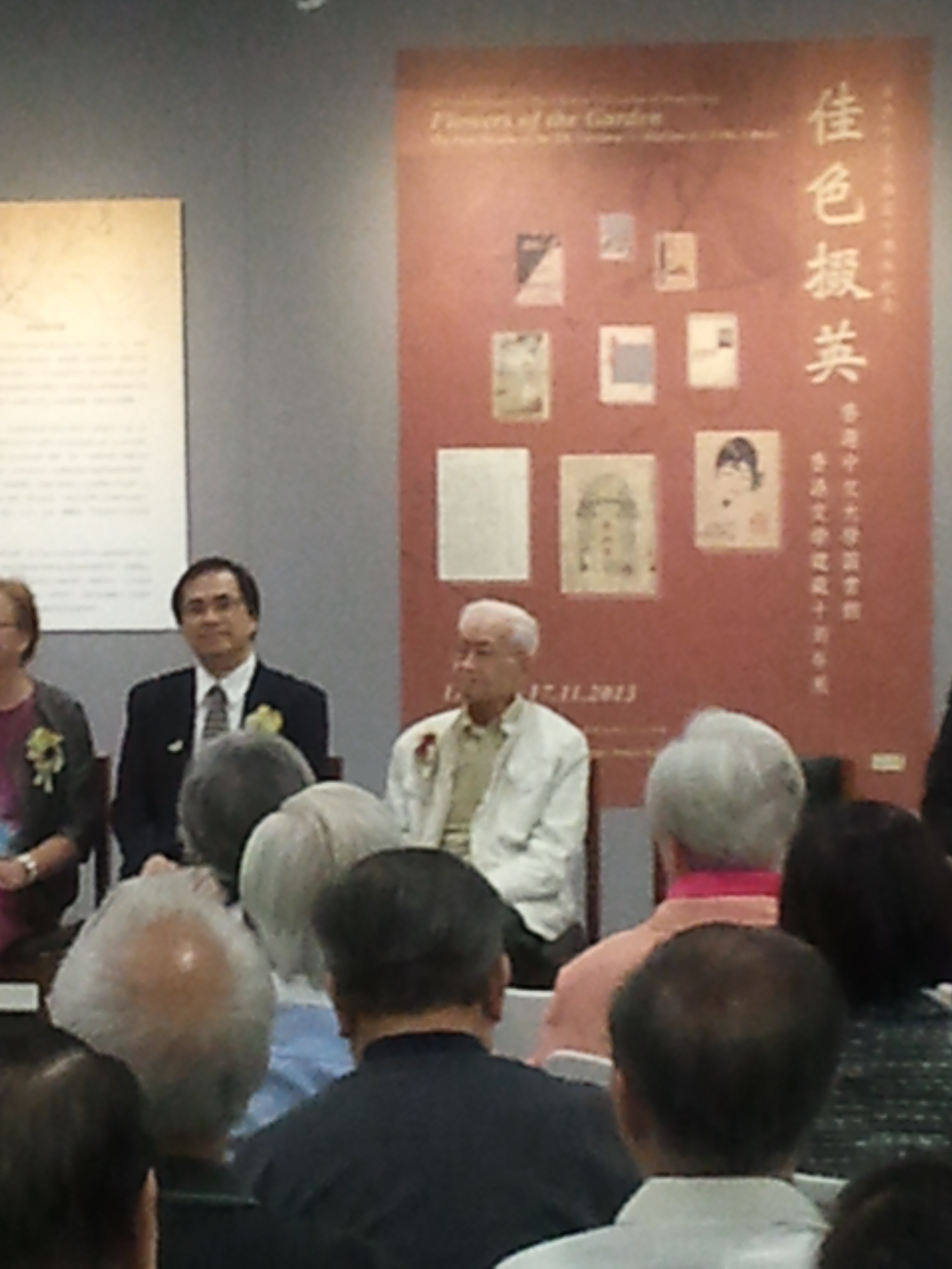 Liu Yichang in CUHK Main Library